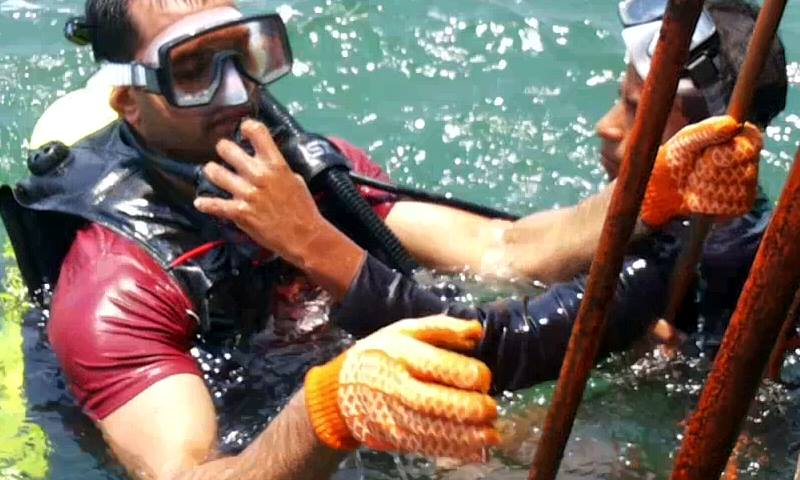 A Instructor helping to diver